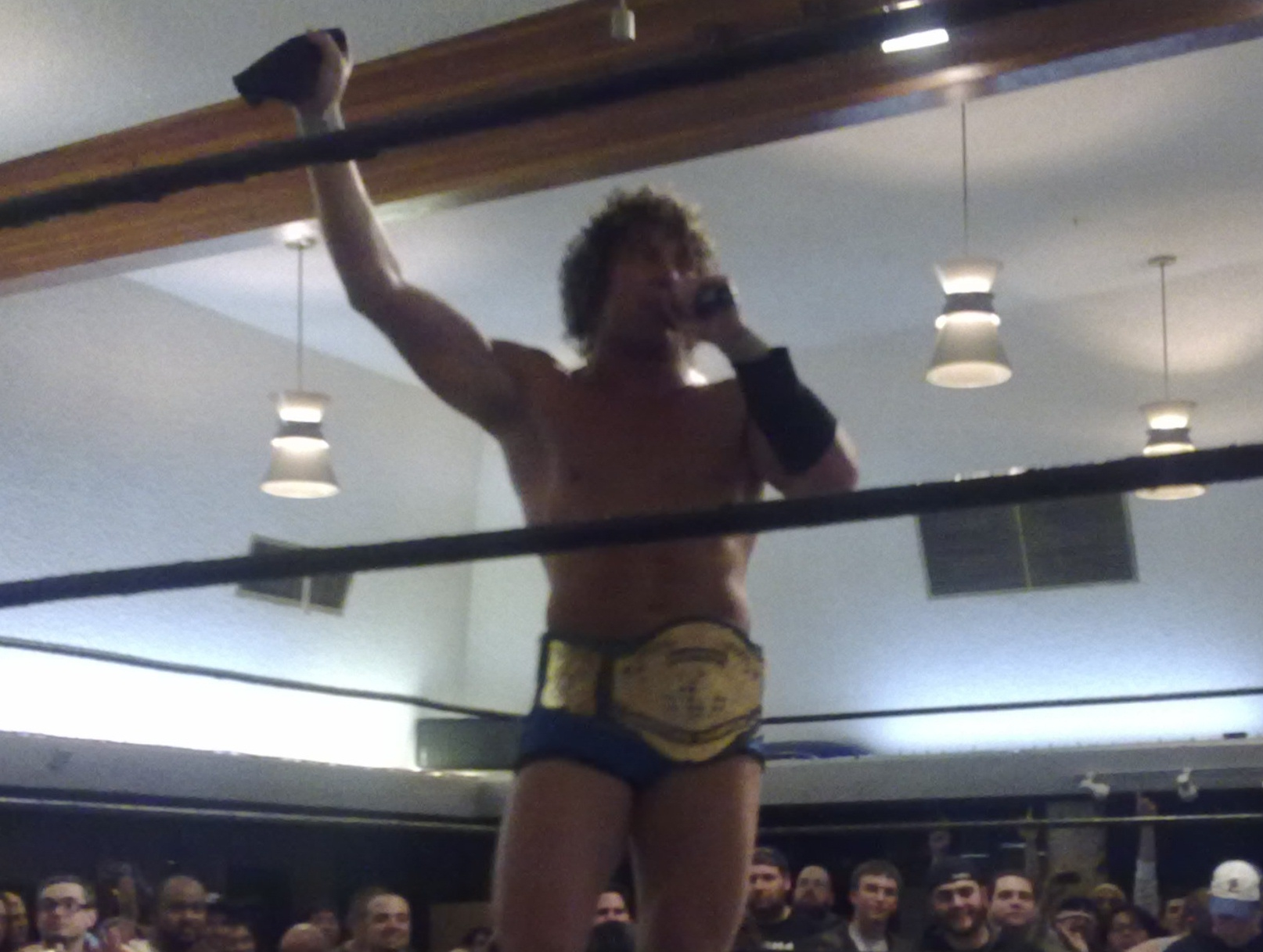 Kenny Omega (real name Tyson Smith) after winning the PWG World Championship at Pro Wrestling Guerrilla's Battle Of Los Aangeles 2009 shwo on November 22, 2009.